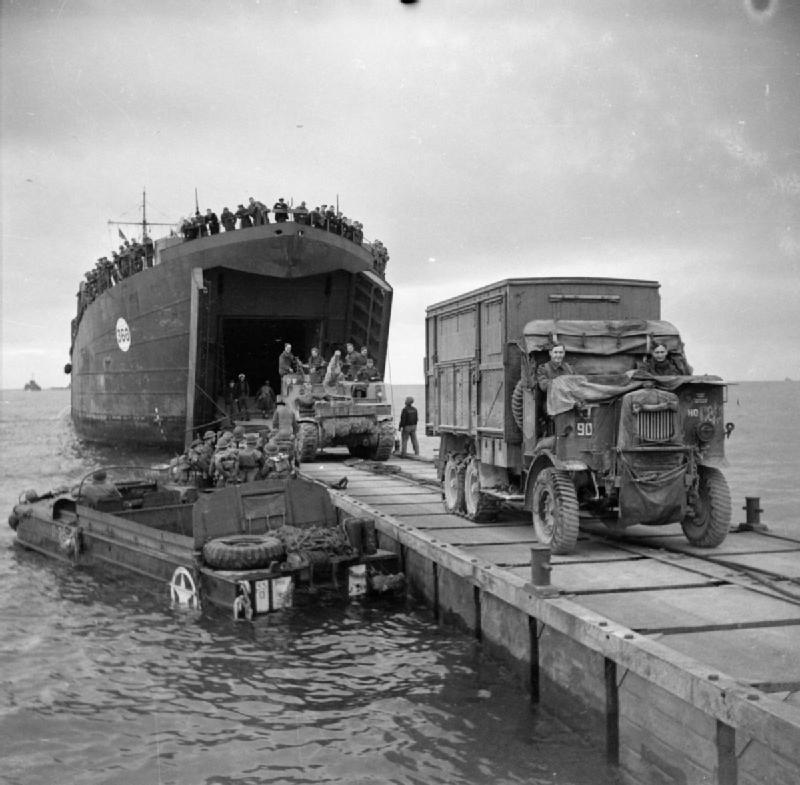 The British Army in Italy 1944 An Albion lorry and Sexton 25pdr self-propelled gun come ashore at Anzio, January 1944. A DUKW is alongside the jetty.